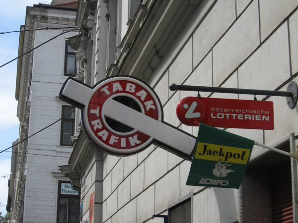 Examples for differing vocabulary in Austrian Standard German Cigarettes and tobacco are sold in Austria in a "Trafik"